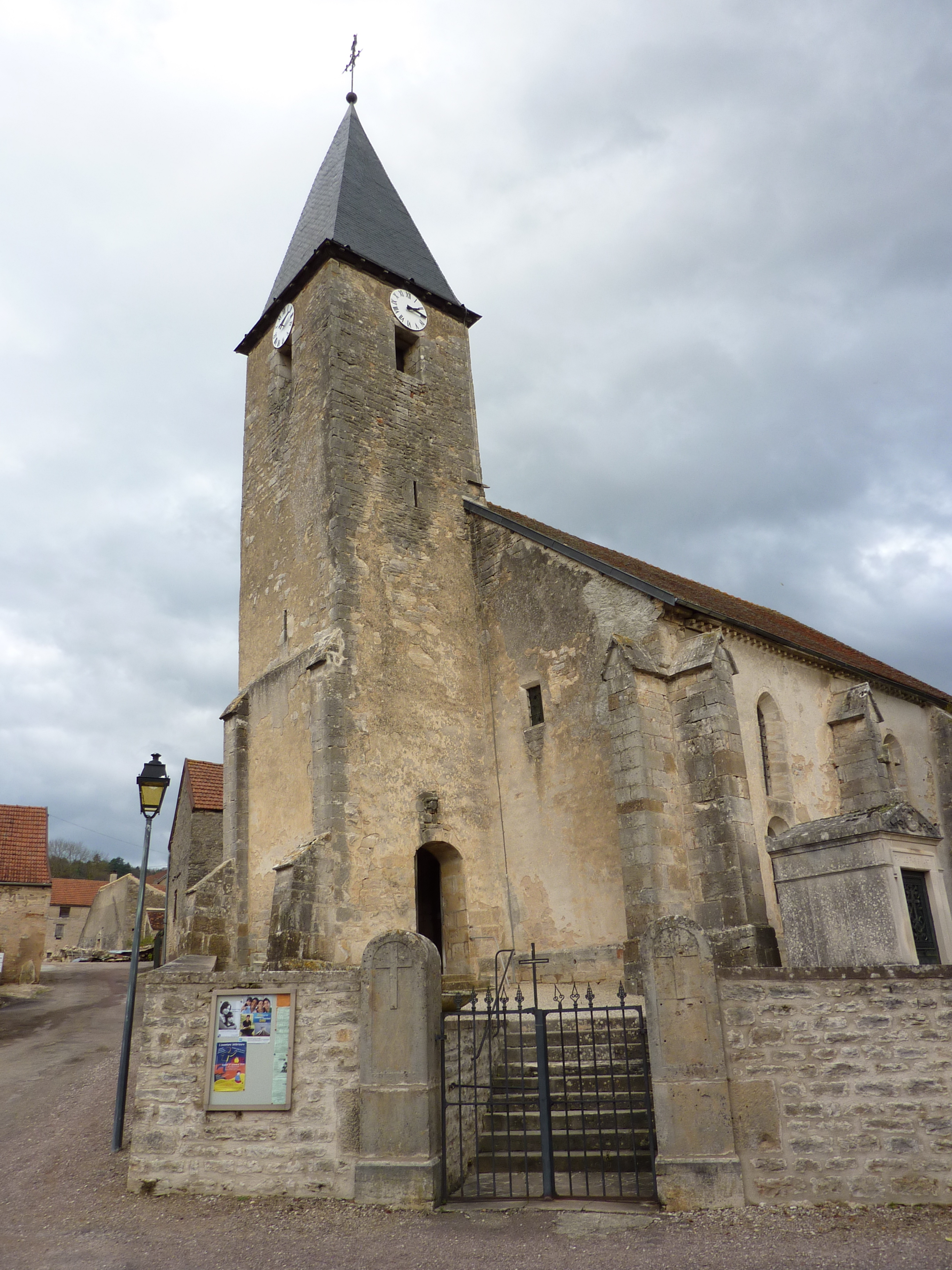 Catholic church of Darcey, Côte d'Or, France